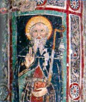 Saint Columbanus.